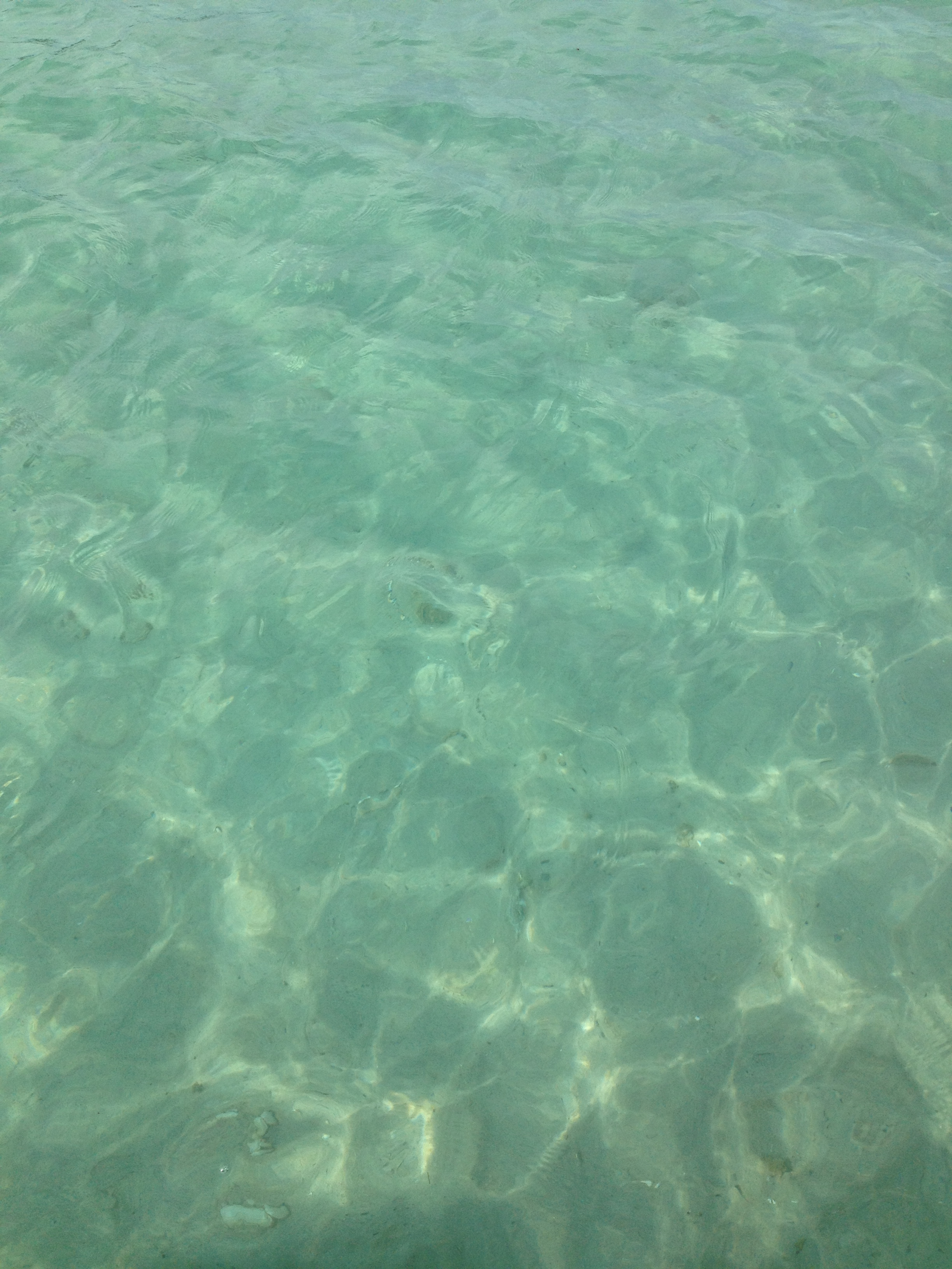 Big Glen Lake Clear Water